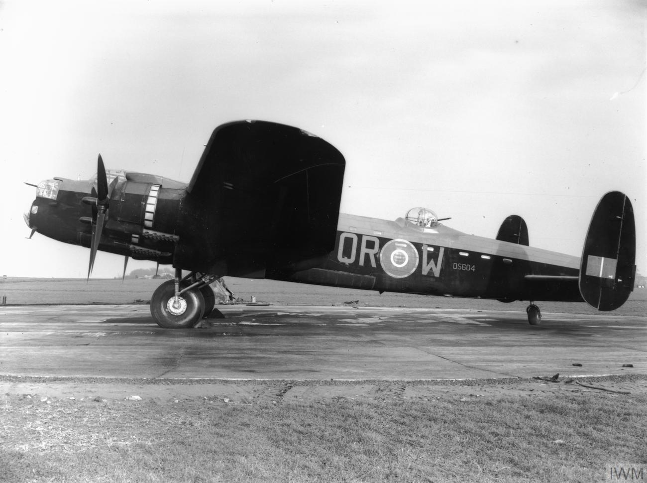 IWM caption : Lancaster Mark II, DS604 ‘QR-W’, of No. 61 Squadron RAF, on the ground at Syerston, Nottinghamshire. DS604 later joined No. 115 Squadron RAF and was lost over Frankfurt on 10/11 April 1943